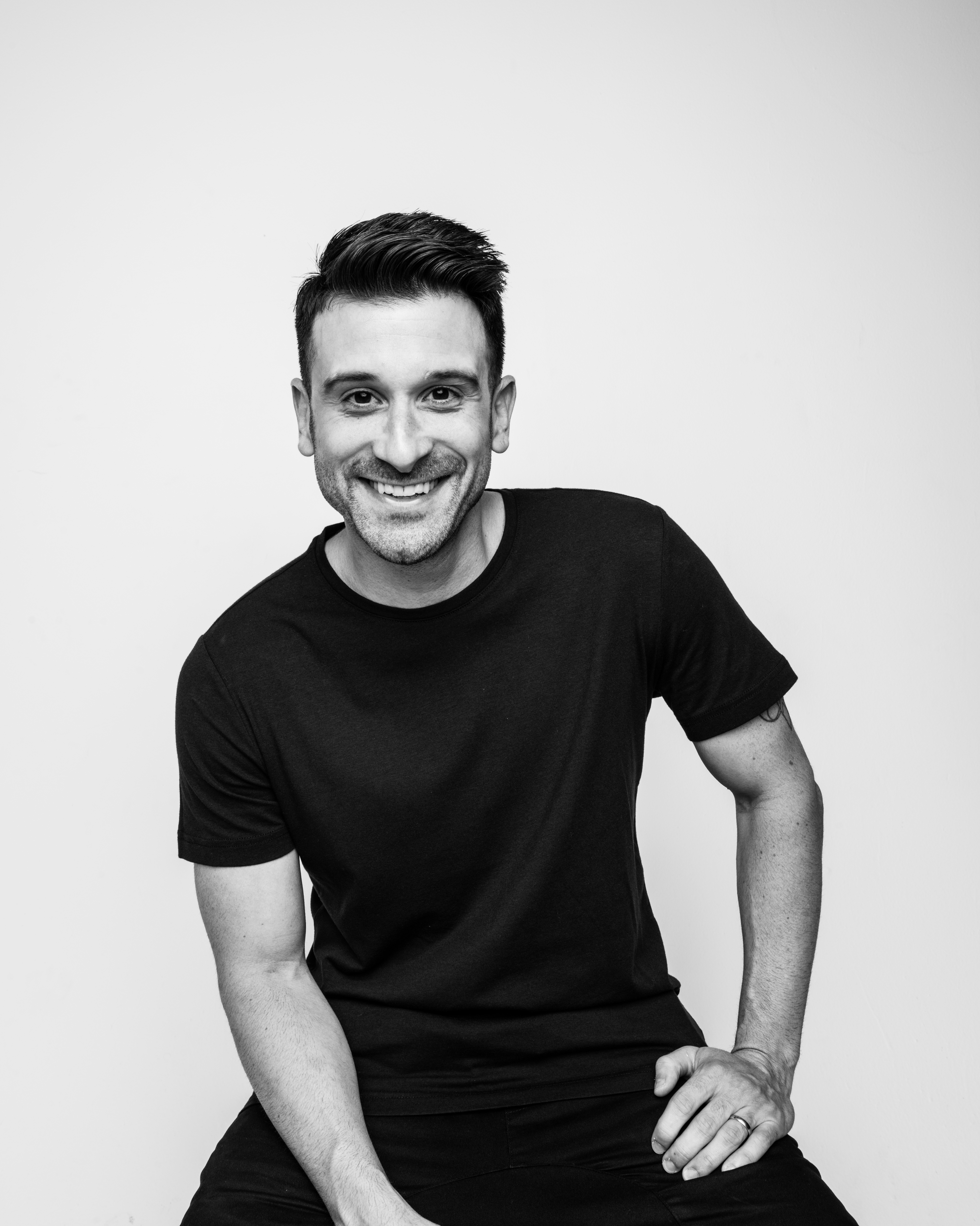 David Garcia headshot